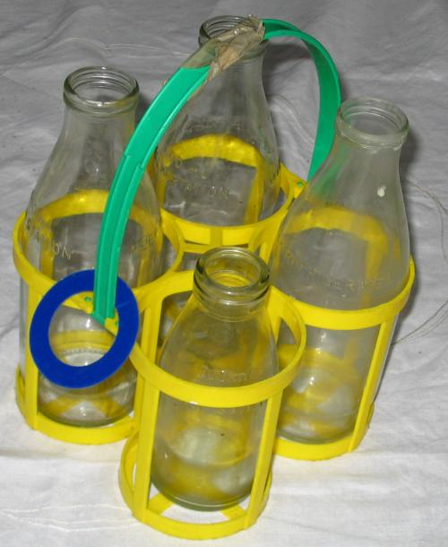 Reusable glass milk bottles used for home delivery service. The used bottles are put out with milk tokens or money and swapped for full bottles with a foil lid. Photo taken by User:Clawed on 28/12/04 and licensed under GNU FDL.. See also zero waste